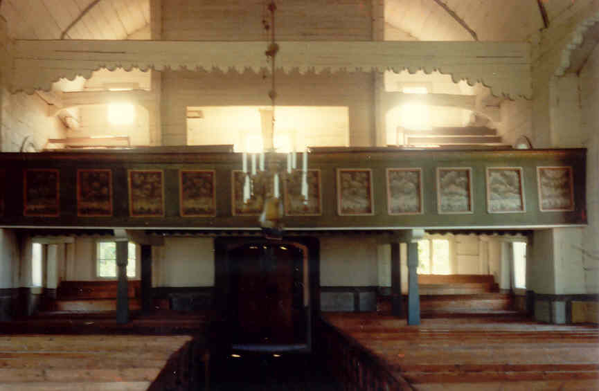 Interior of the Ulrika Eleonora Church, Kristinestad, Finland